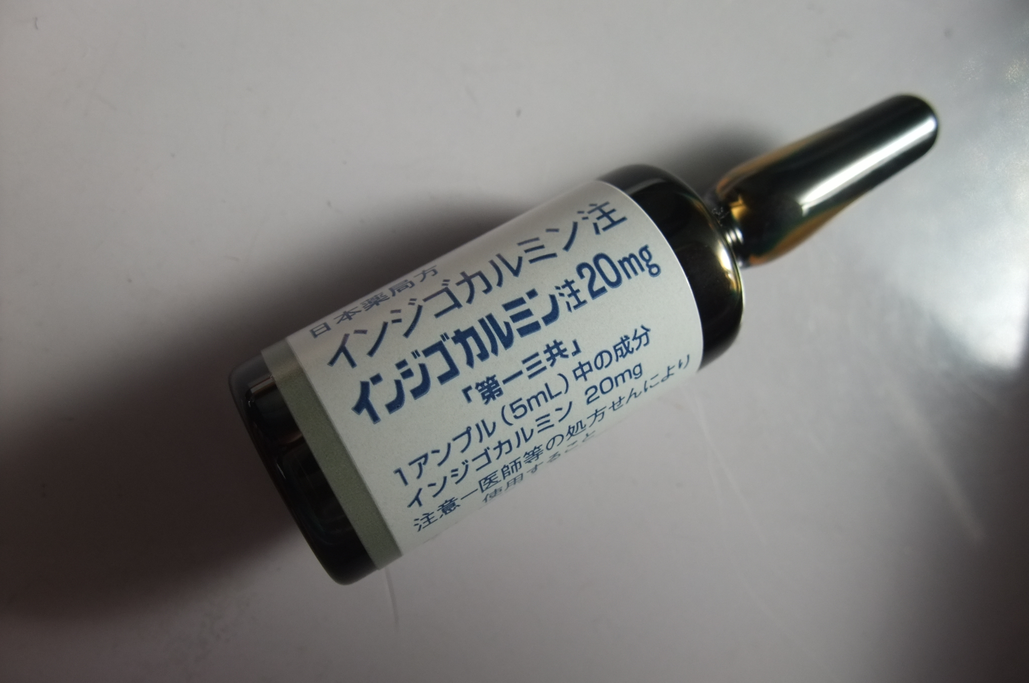 Indigo carmine, This product is for medical use. (made in JAPAN)